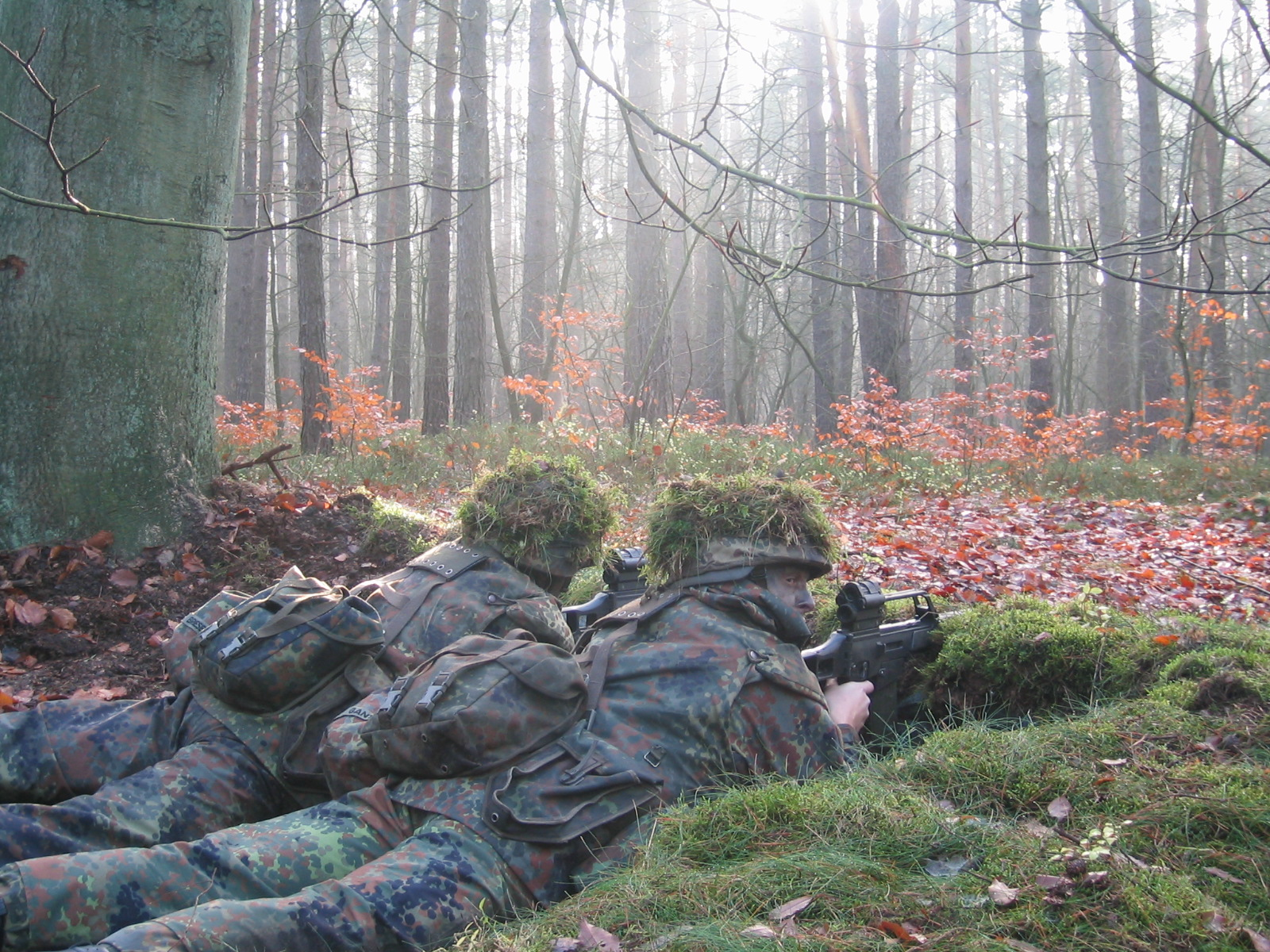 Recruits during basic training in the Bundeswehr, here Armored infantry men in Stallberg (trainig elementː on Outpost) in Autumn 2006.